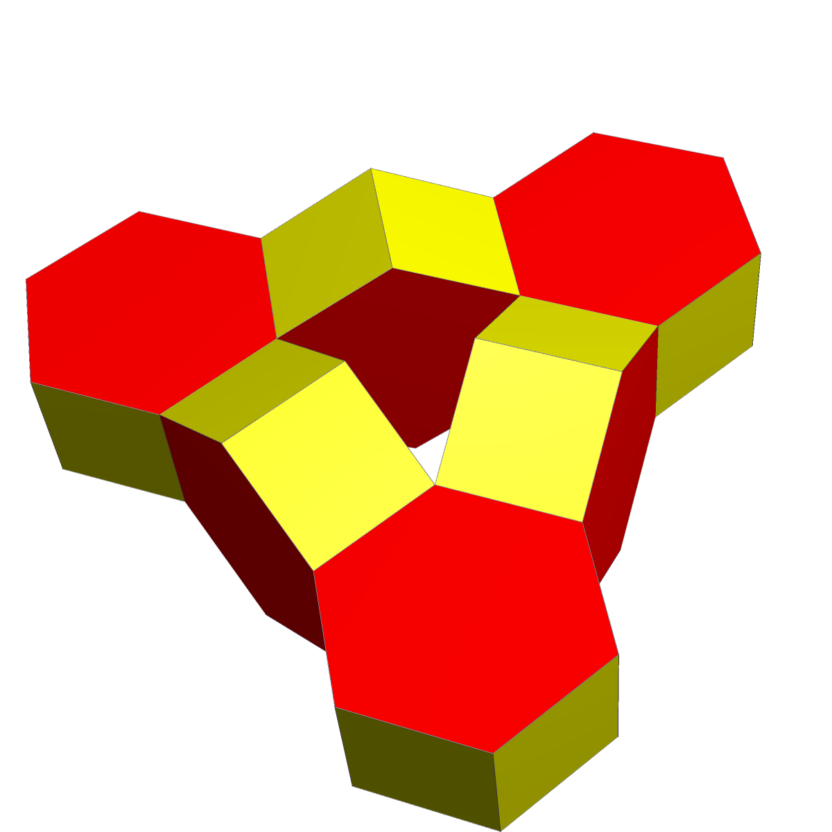 Stewart toroid The copyright holder of this file, Robert Webb, allows anyone to use it for any purpose, provided that the copyright holder is properly attributed. Redistribution, derivative work, commercial use, and all other use is permitted. Attribution: Attribution must be given to Robert Webb's Stella software as the creator of this image along with a link to the website: A complimentary copy of any book or poster using images from the Software would also be appreciated where feasible. This work is free and may be used by anyone for any purpose. If you wish to use this content, you do not need to request permission as long as you follow any licensing requirements mentioned on this page.